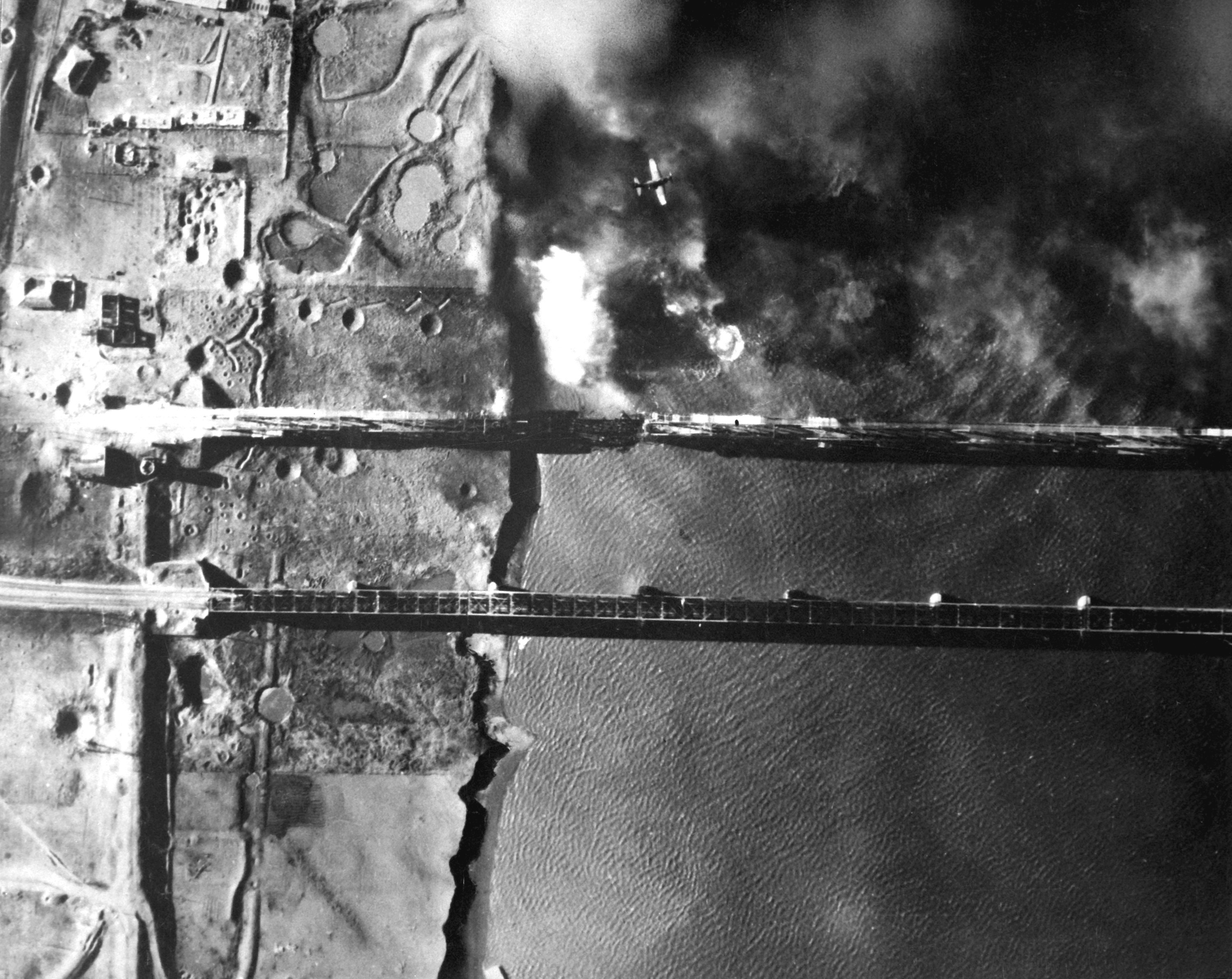 Navy AD-3 dive bomber pulls out of dive after dropping a 2000 lb. bomb on Korean side of a bridge crossing the Yalu River at Sinuiju, into Manchuria. Note: anti-aircraft gun emplacement on both sides of the river. November 15, 1950. (Navy) NARA FILE #: 080-G-422112 WAR & CONFLICT BOOK #: 1442